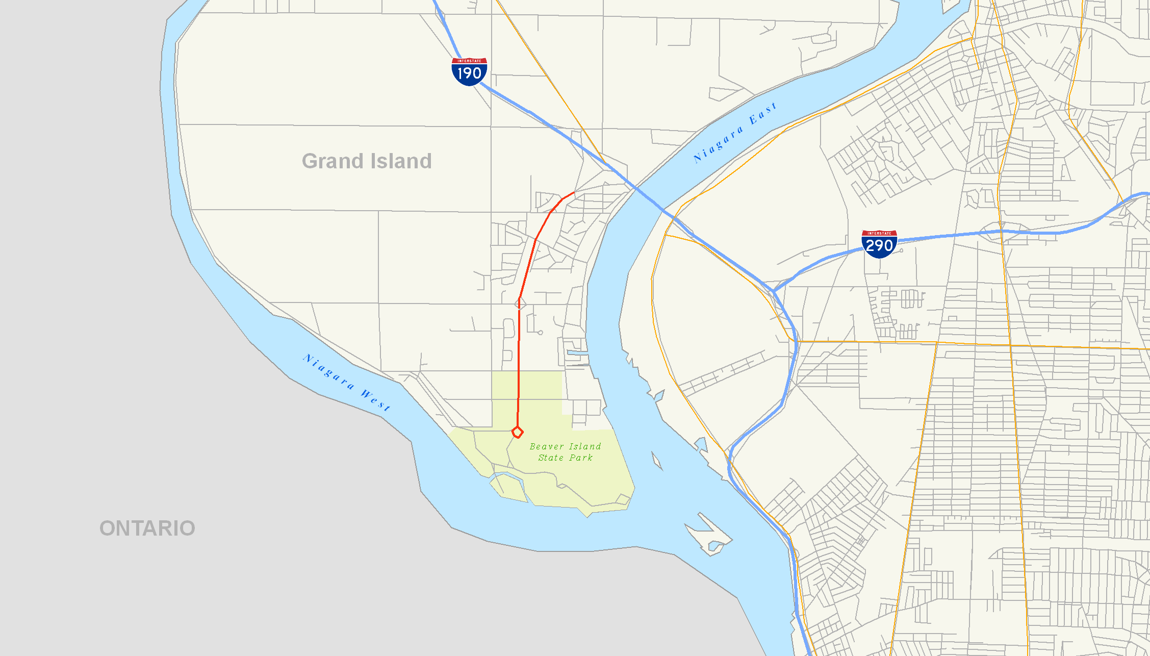 Map of Beaver Island Parkway in Erie County, New York